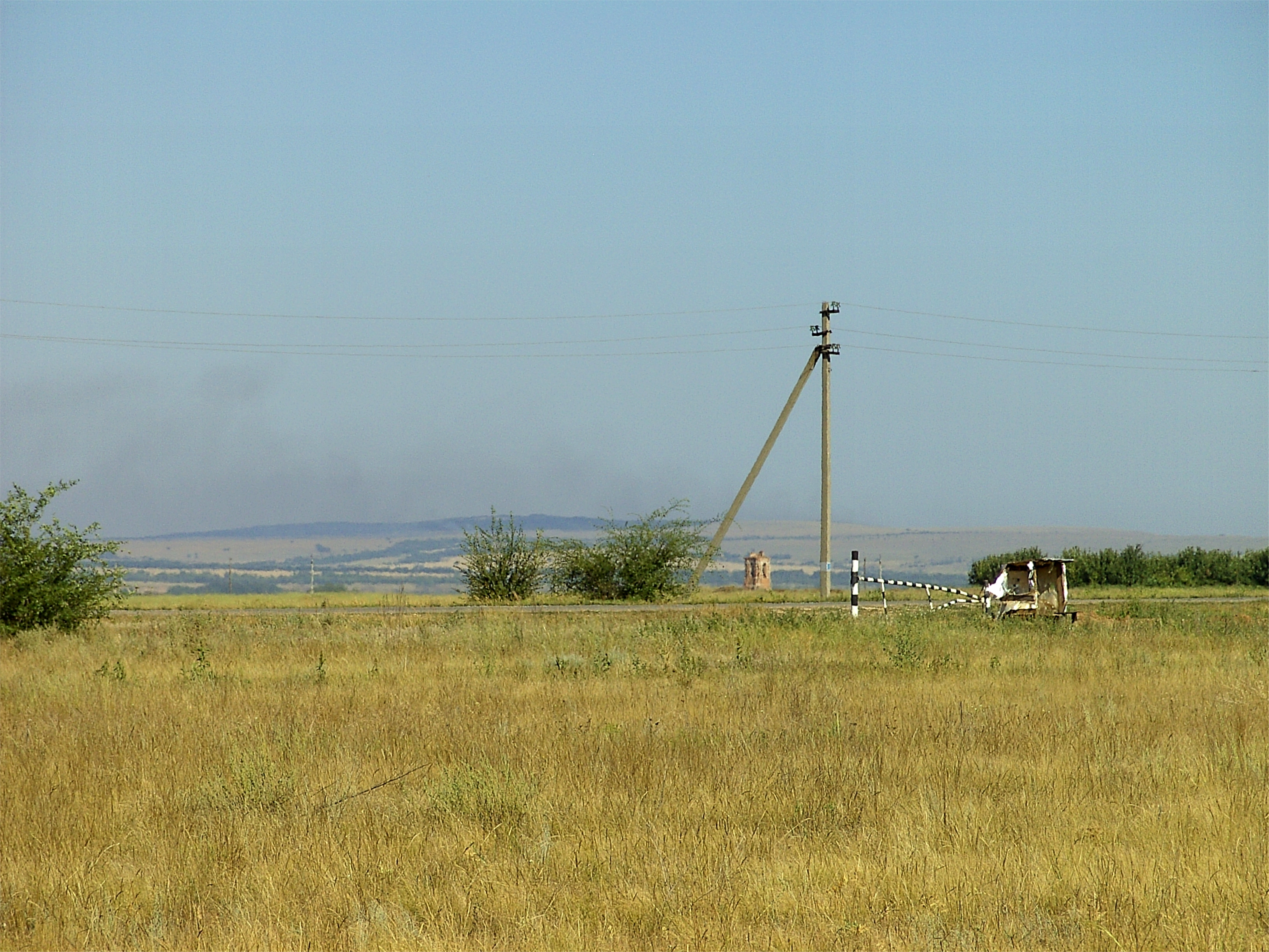 Landscape in Volgograd Oblast near the River Don.